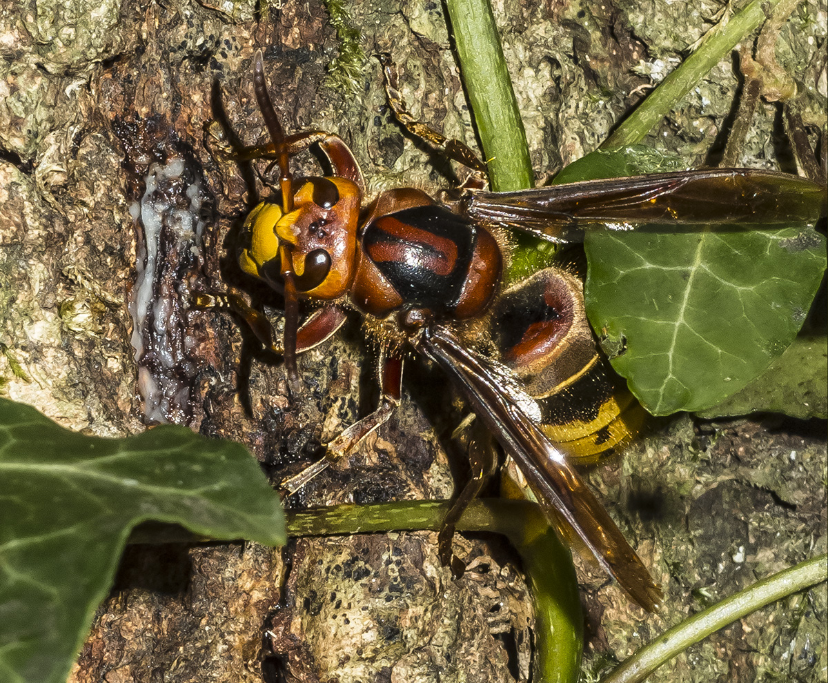 Hornet on oak tree in the Aamsveen, The Netherlands